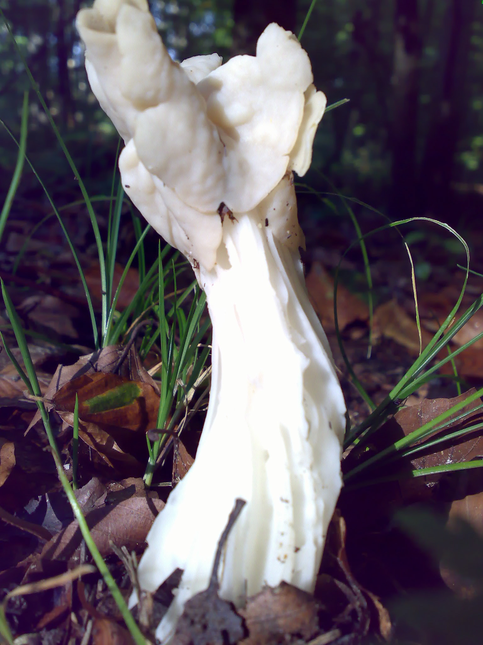 Herbstlorchel (Helvella crispa)